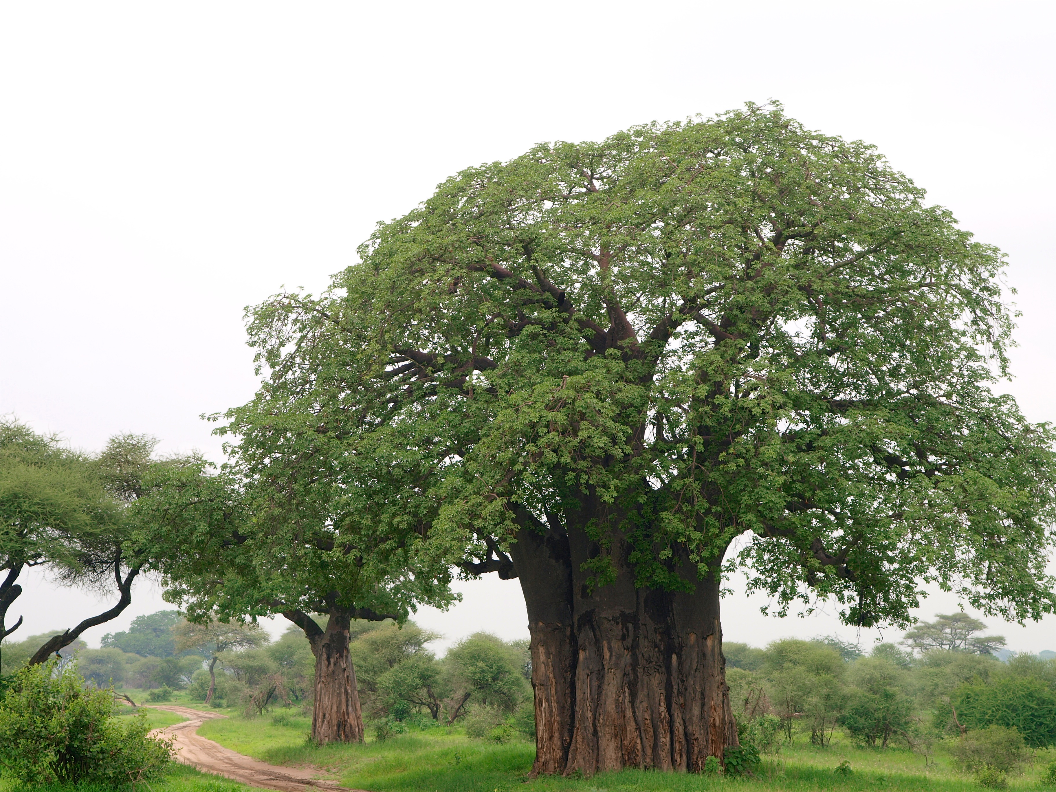 Baobab, Tarangire National Park (2015)